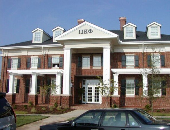 A picture of the Sigma Chapter house (University of South Carolina) of the Pi Kappa Phi Fraternity.